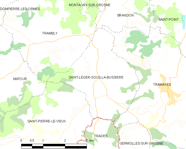 Map of French municipality